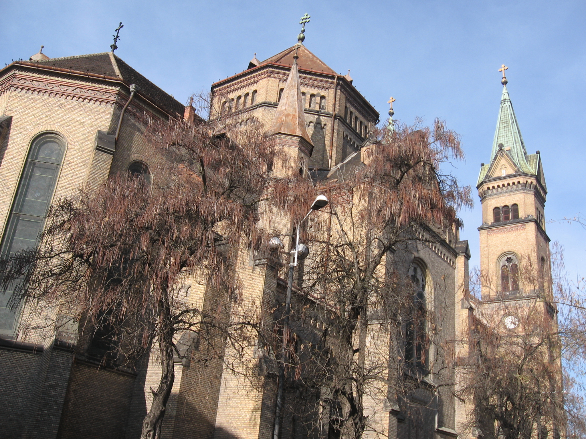 The Millennium church